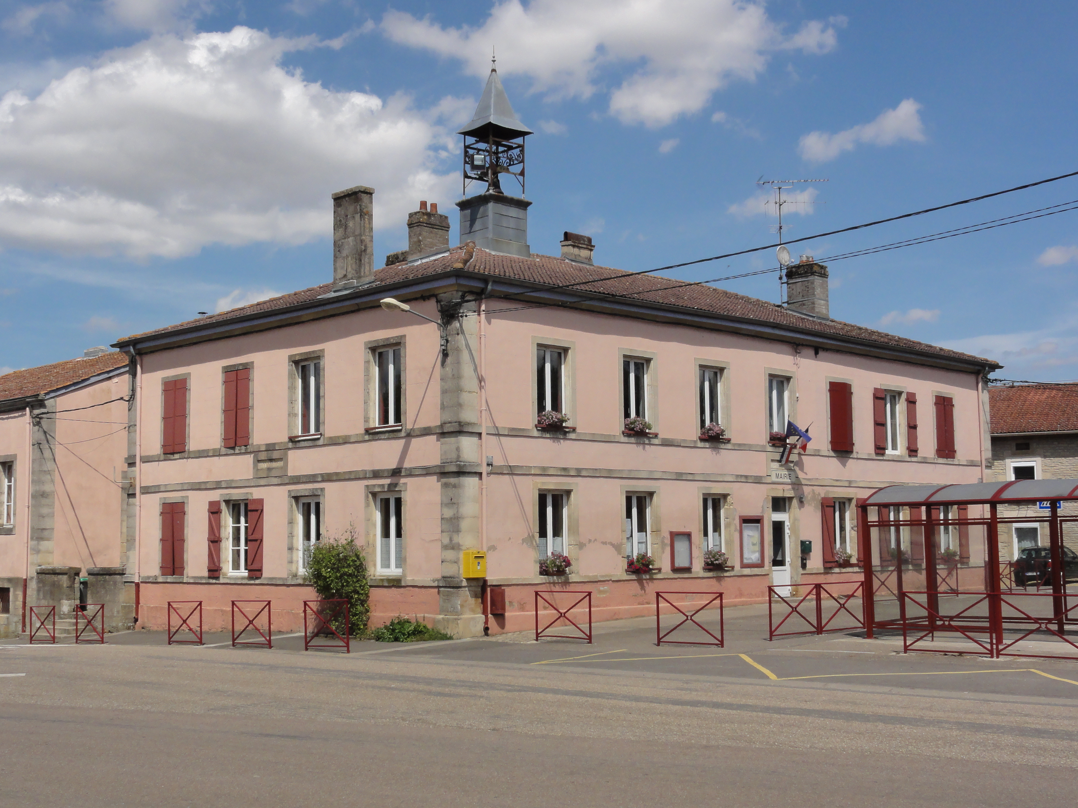 Mangiennes (Meuse) mairie